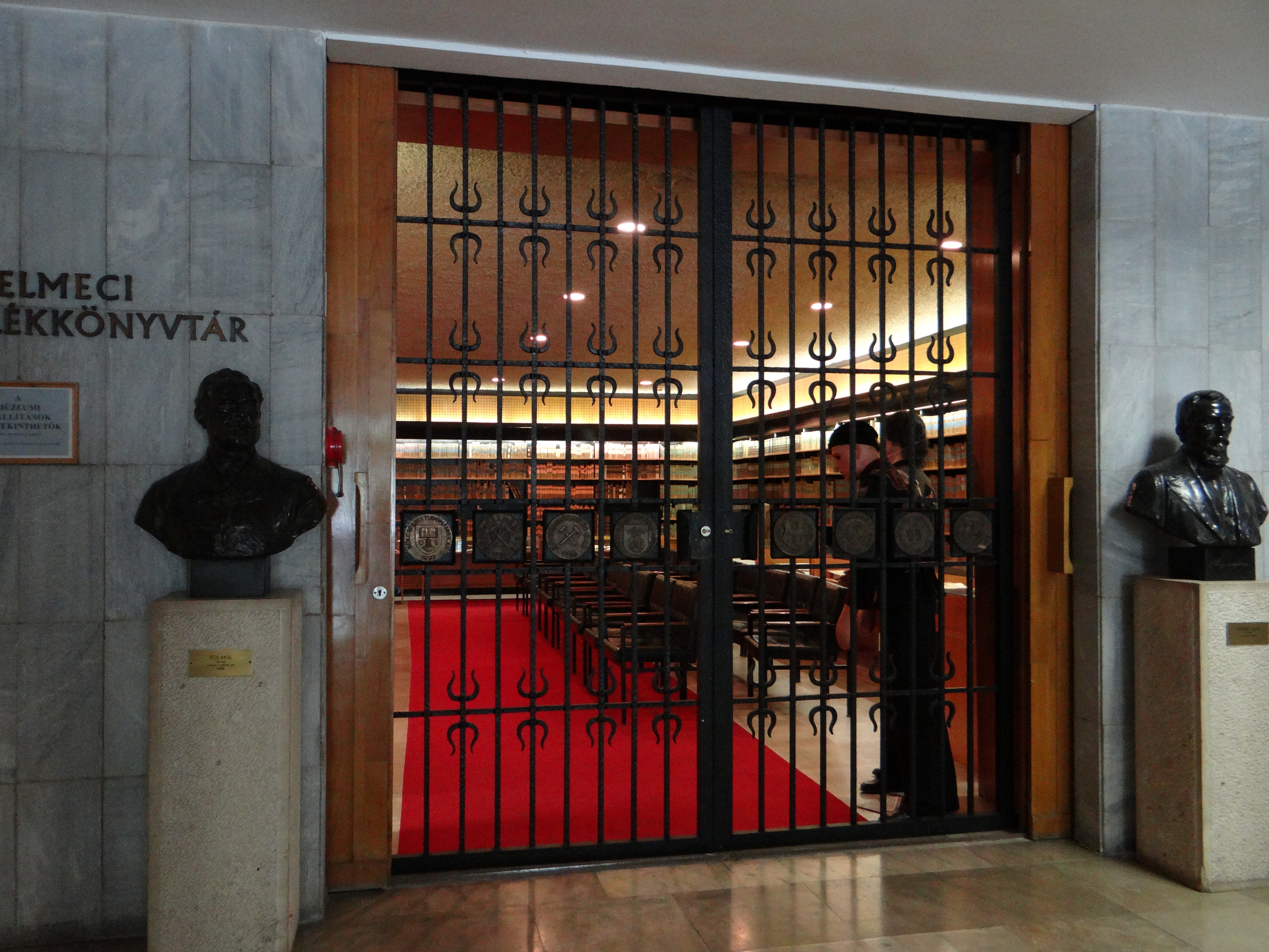 Selmec Museum Library, Miskolc, Hungary, Forged Iron Gate